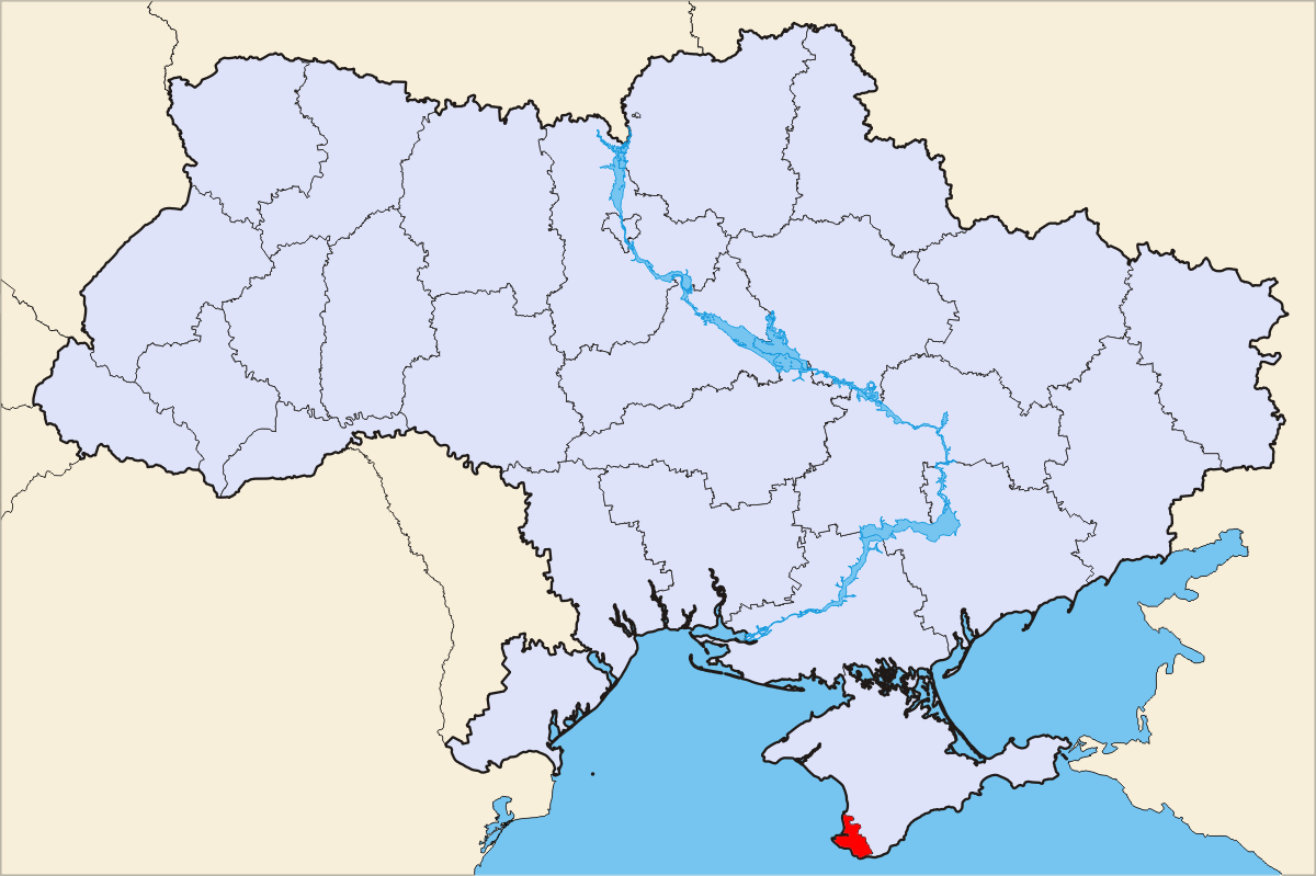 Political map of Ukraine, highlighting Sevastopol